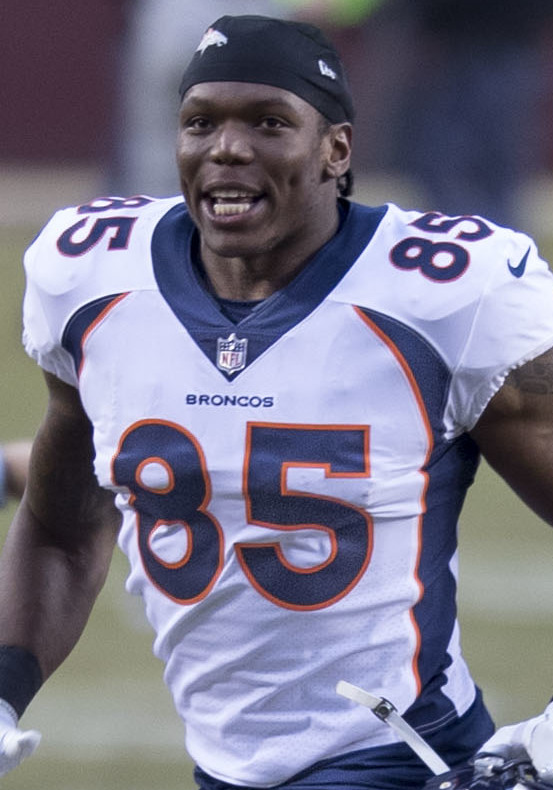 Broncos at Redskins 12/24/17